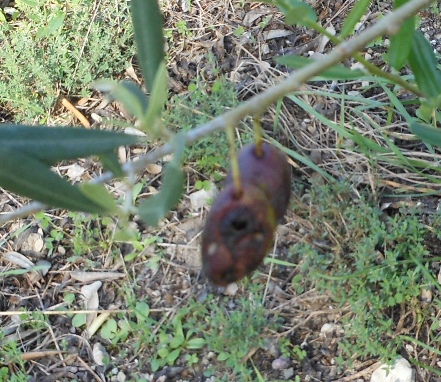 Picholine olive fruit bitten and hit by dalmaticosis